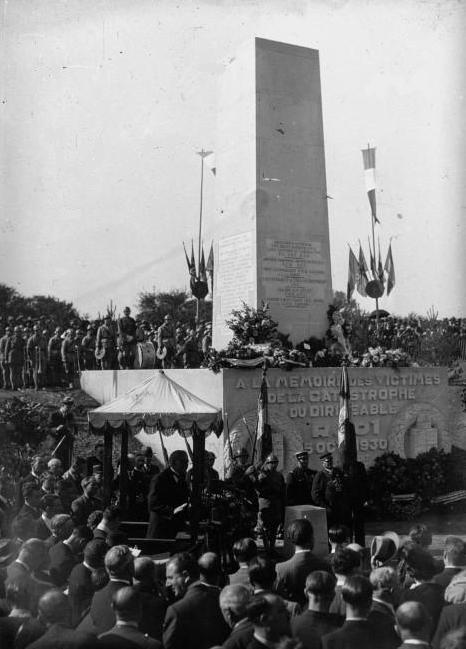 1933 inaugauration ceremony for the memorial to the victims of the crash of the British airship near Allone R101.